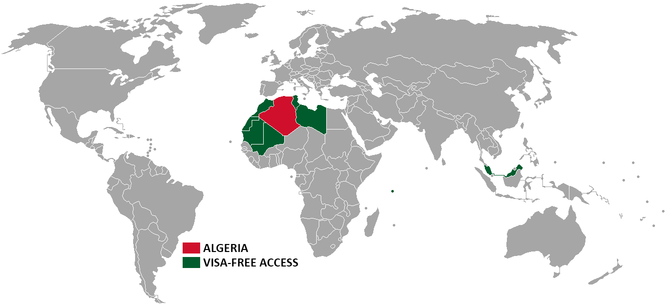 Visa policy of Algeria Algeria Visa-free